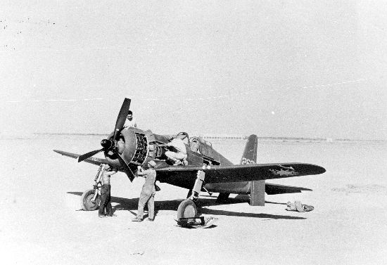 Vultee Vanguard (P-66) of the Chinese Nationalist Air Force/American Volunteer Group undergoing maintenance.